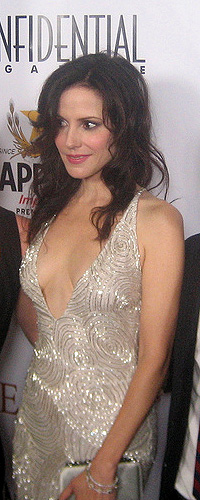 American actress Mary-Louise Parker attending the L.A. Confidential/Belvedere/Water Club/Sapporo Emmy Party